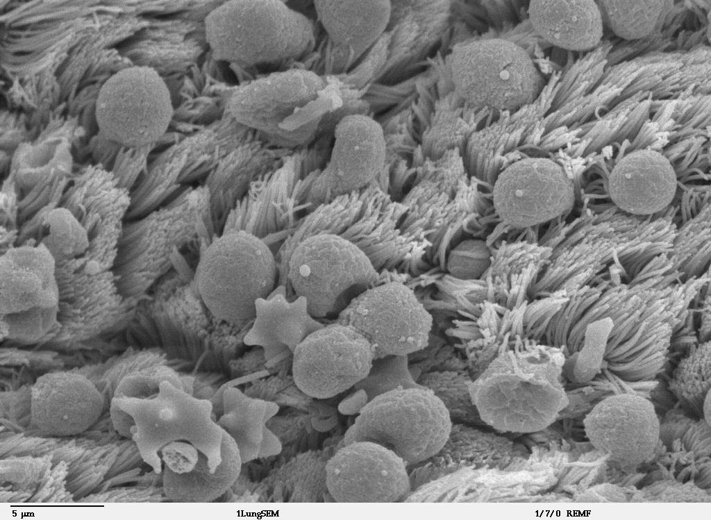 Scanning electron microscope image of lung epithelium, which consists of ciliated and non-ciliated bronchiolar cells.There are red blood cells on the surface of the epithelium. Zeiss DSM 962 SEM